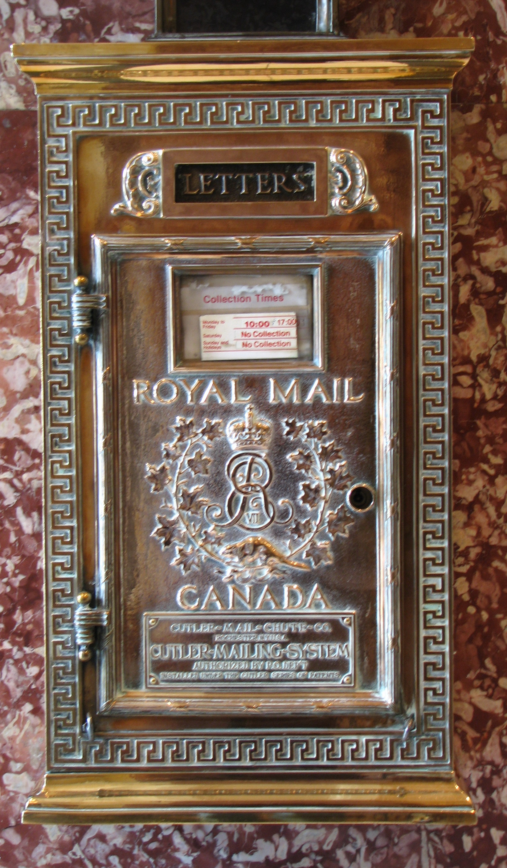 Edward VII wall-mounted post box in Vancouver, Canada